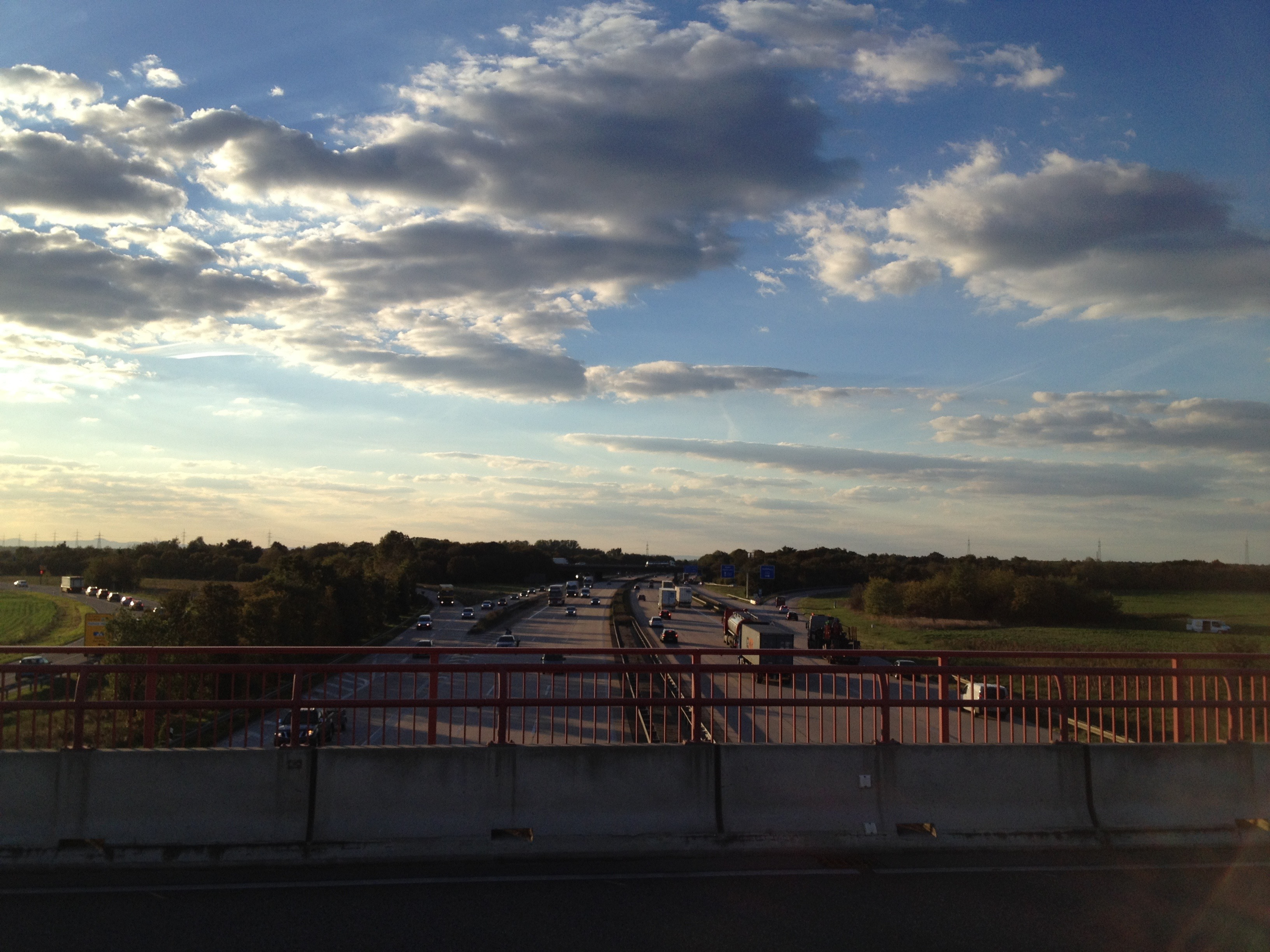 In the picture there is a intersection near Walldorf in Germany.